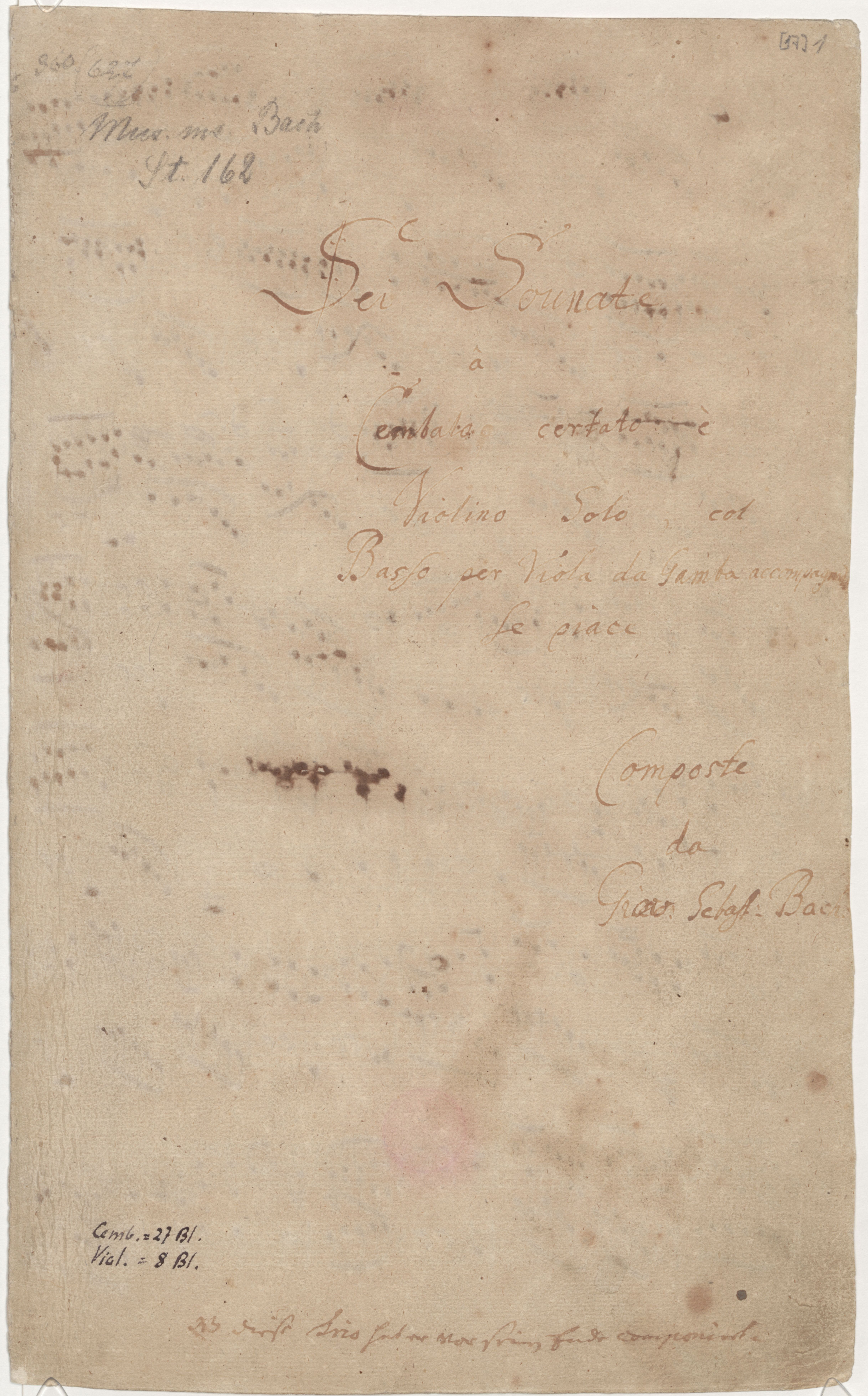 Title page of autograph manuscript of the sonatas for violin and obbligato harpsichord, BWV 1014∼1019, by Johann Sebastian Bach. All the movements except the last three were copied by Bach's nephew Johann Heinrich Bach, with the last three written by Bach himself. The title page was written by Bach's nephew with an annotation at the bottom of the page added by Bach's son J.C.F. Bach.